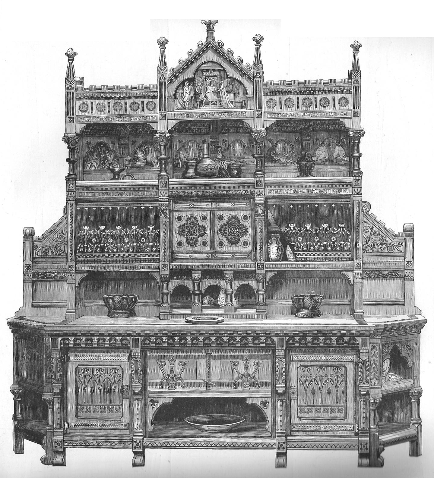 Cabinet designed by Bruce Talbert and exhibited by Holland & Sons at the 1867 exhibition in Paris.